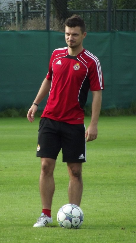 German football player Dragan Paljić. Photo taken during training before Champions League 4-th qualifying round match: Wisła Kraków - APOEL F.C.